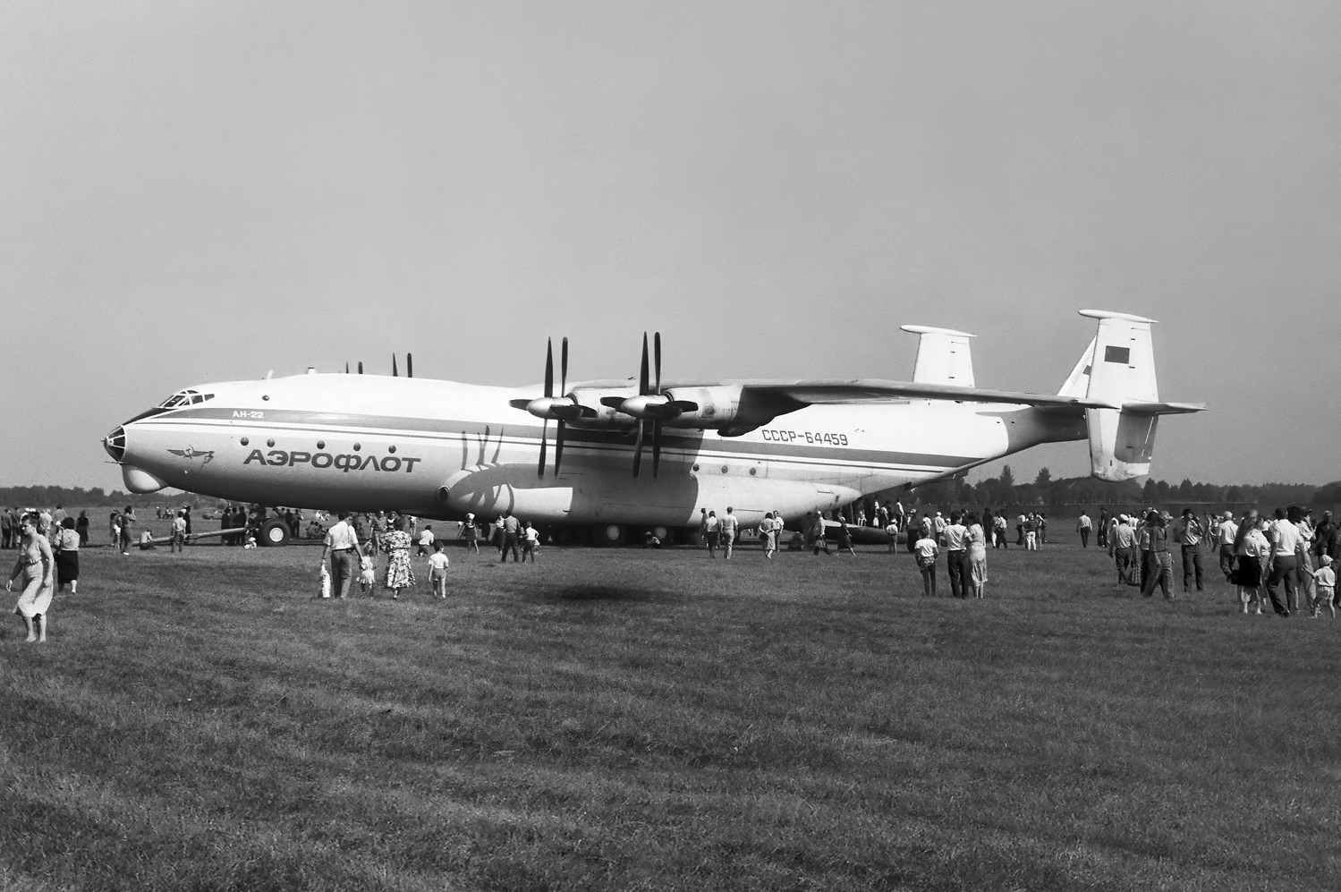 An Antonov An-22PZ Antei in Aeroflot livery at Gostomel (UKKM). This was the first An-22 prototype.